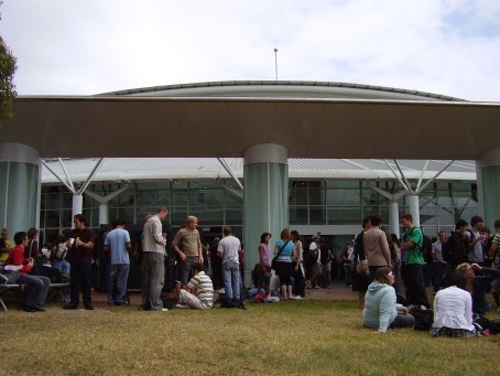 Hillsong Church hoofdingang